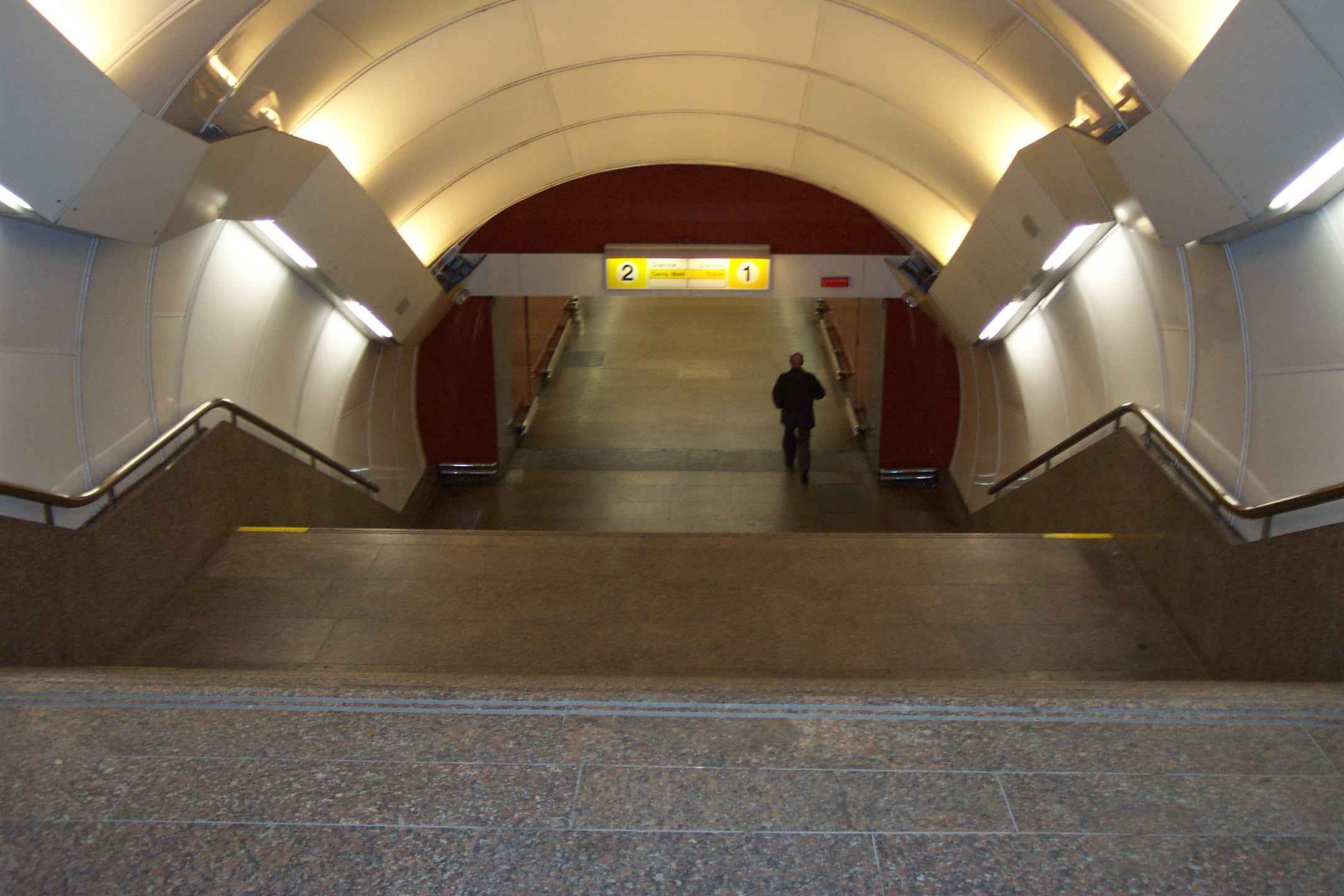 Station Křižíkova, middle tunnel enterance.